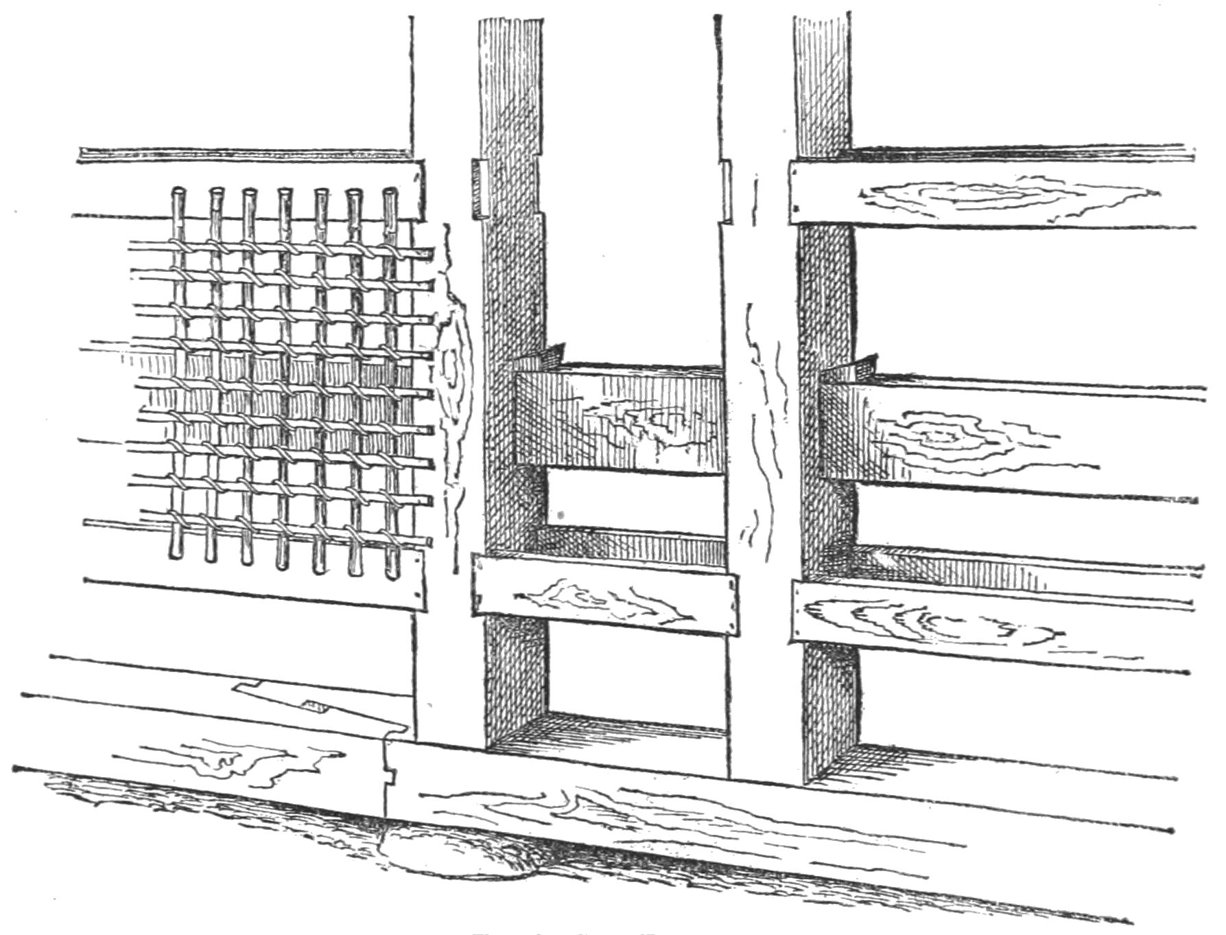 Side_framing of a Japanese house under construction 19th century